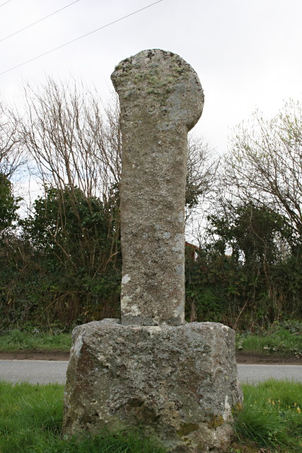 Ancient Stone Cross on Old Callywith Road Sited in the grass triangle in the middle of a junction of minor roads, this cross is marked on both the 1:25,000 and 1:50,000 maps. It looks like it has lost part of its head at some point.